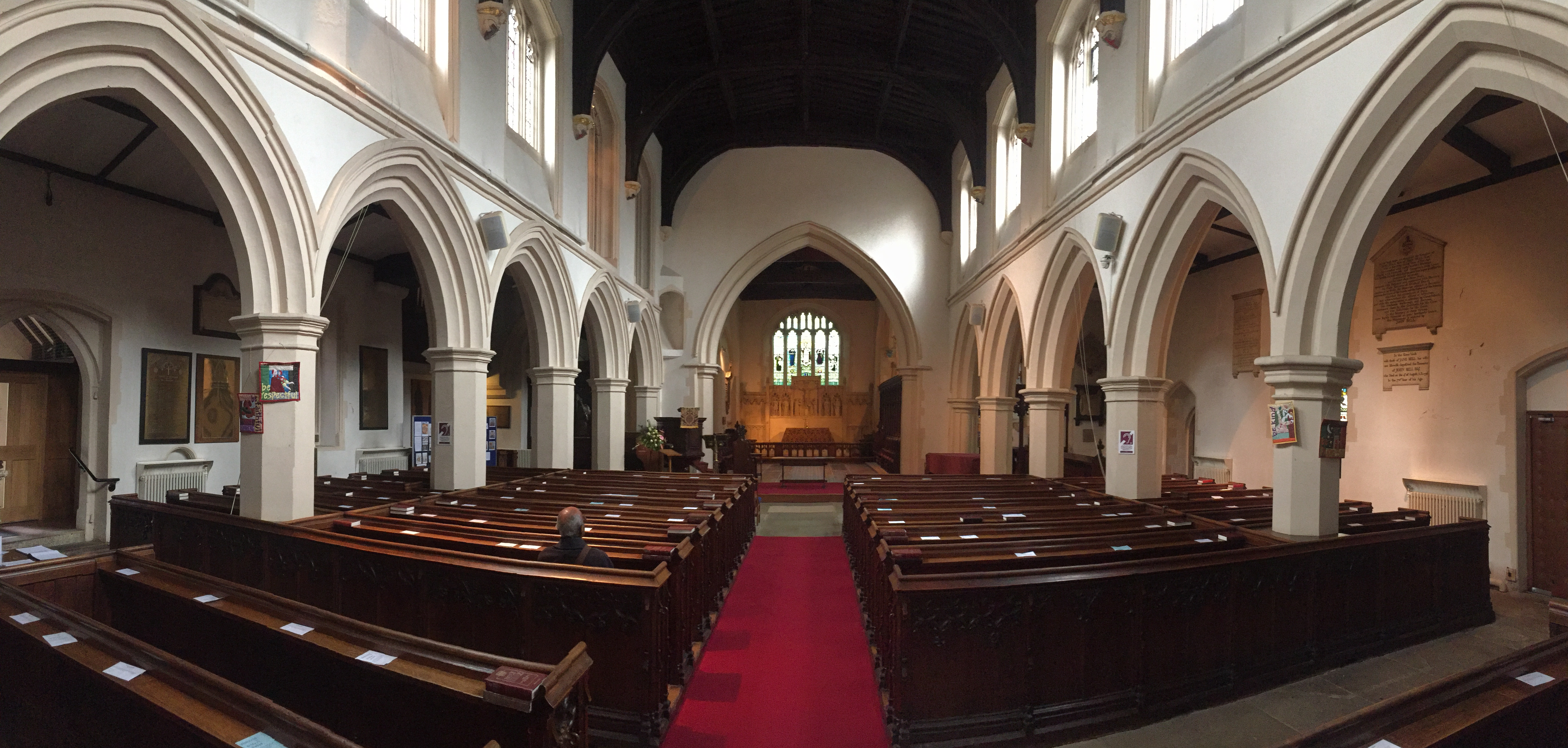 The nave of Saint Mary's Church, Watford, Hertfordshire